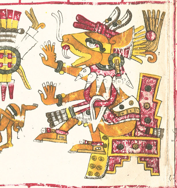 A drawing of Huehuecoyotl, one of the deities described in the Codex Borgia